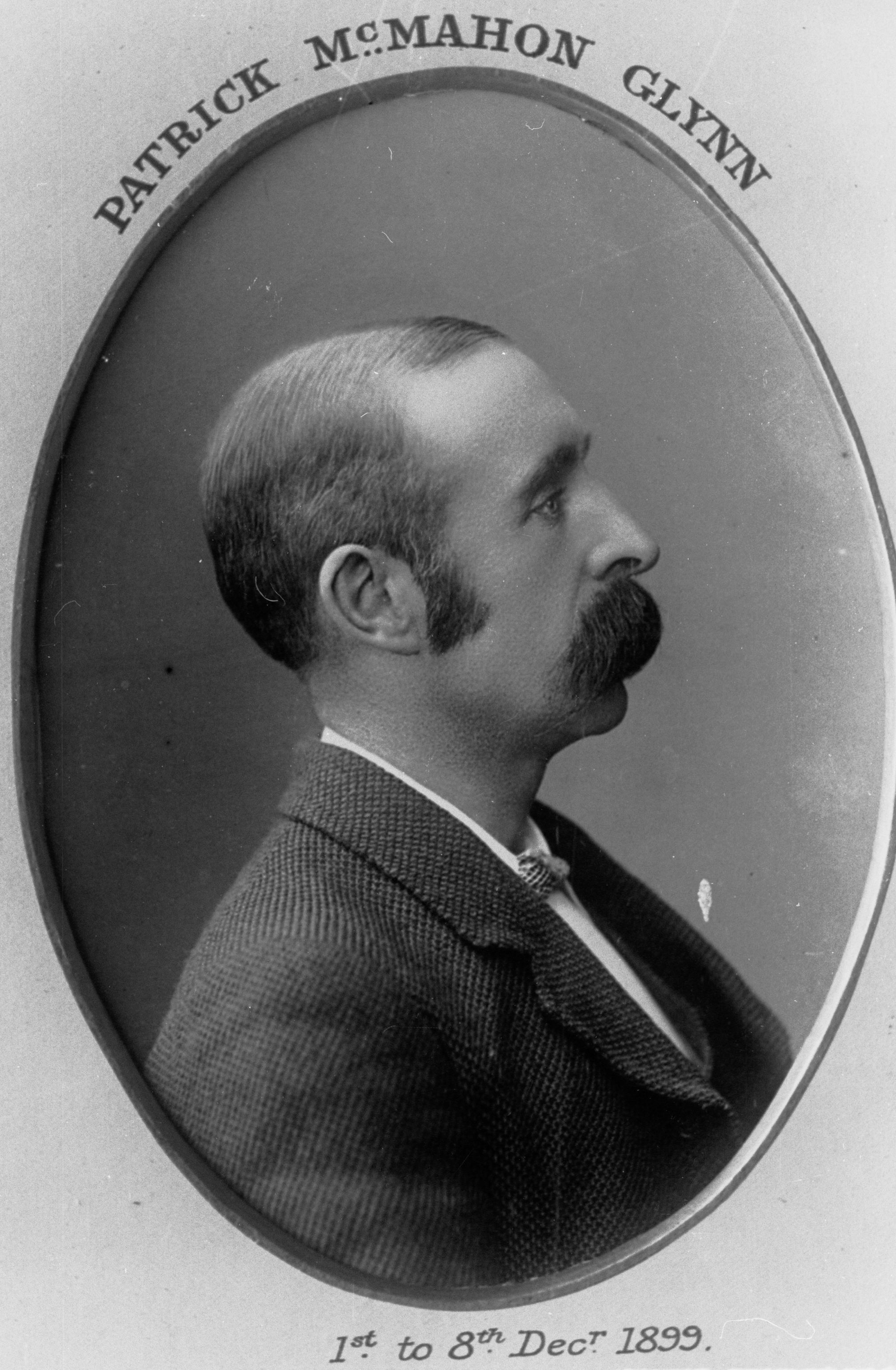 Irish-born Patrick ('Paddy') McMahon Glynn was a lawyer, politican and 'father of Federation' in South Australia. A member of the House of Assembly in the late 1880s and 1890s, he was a delegate to the Federation Convention in 1897-189, at which his enduring contribution was the reference to God in the Australian constitution's preamble. Glynn was elected to the House of Representatives in 1901 on a Free Trade platform and served in three ministries before his defeat in 1919. He returned to the law before he died in 1931. (Gerald O'Collins, 'Glynn, Patrick McMahon (Paddy) (1855–1931)', Australian Dictionary of Biography, National Centre of Biography, Australian National University, published first in hardcopy 1983, accessed online 13 February 2019.) The portrait appears to be from a collection depicting ministers (or attorneys-general) in South Australian goverments. Glynn was Attorney General in the Vabien Solomon government (South Australia's shortest) which was in office from 1-8 December 1899.